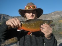 fishing